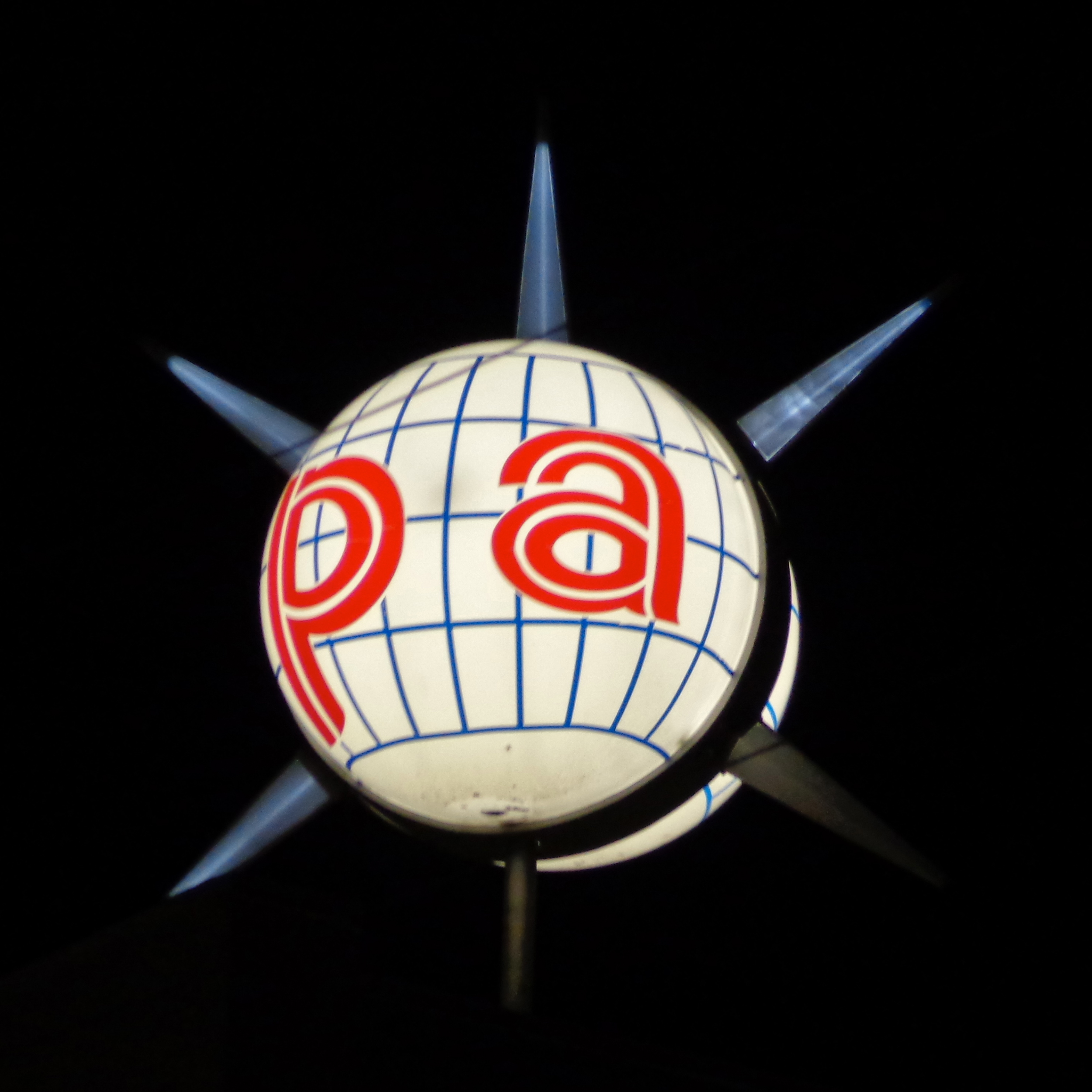 Pan Am Motel neon sign in the Dop Wop historic district in the Wildwoods, New Jersey. This historic district consists of motels built from the 1950s through early 1970s is famous for its neon signs